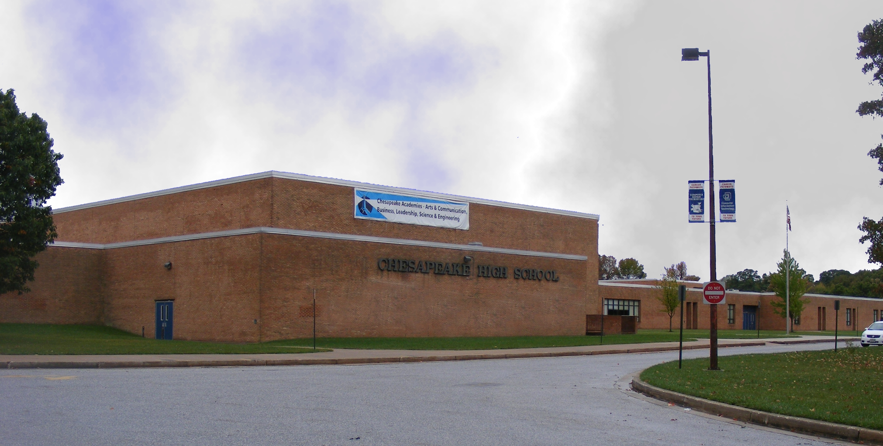 Chesapeake High School, Essex, Maryland (2007). I created this image Summary I created this image